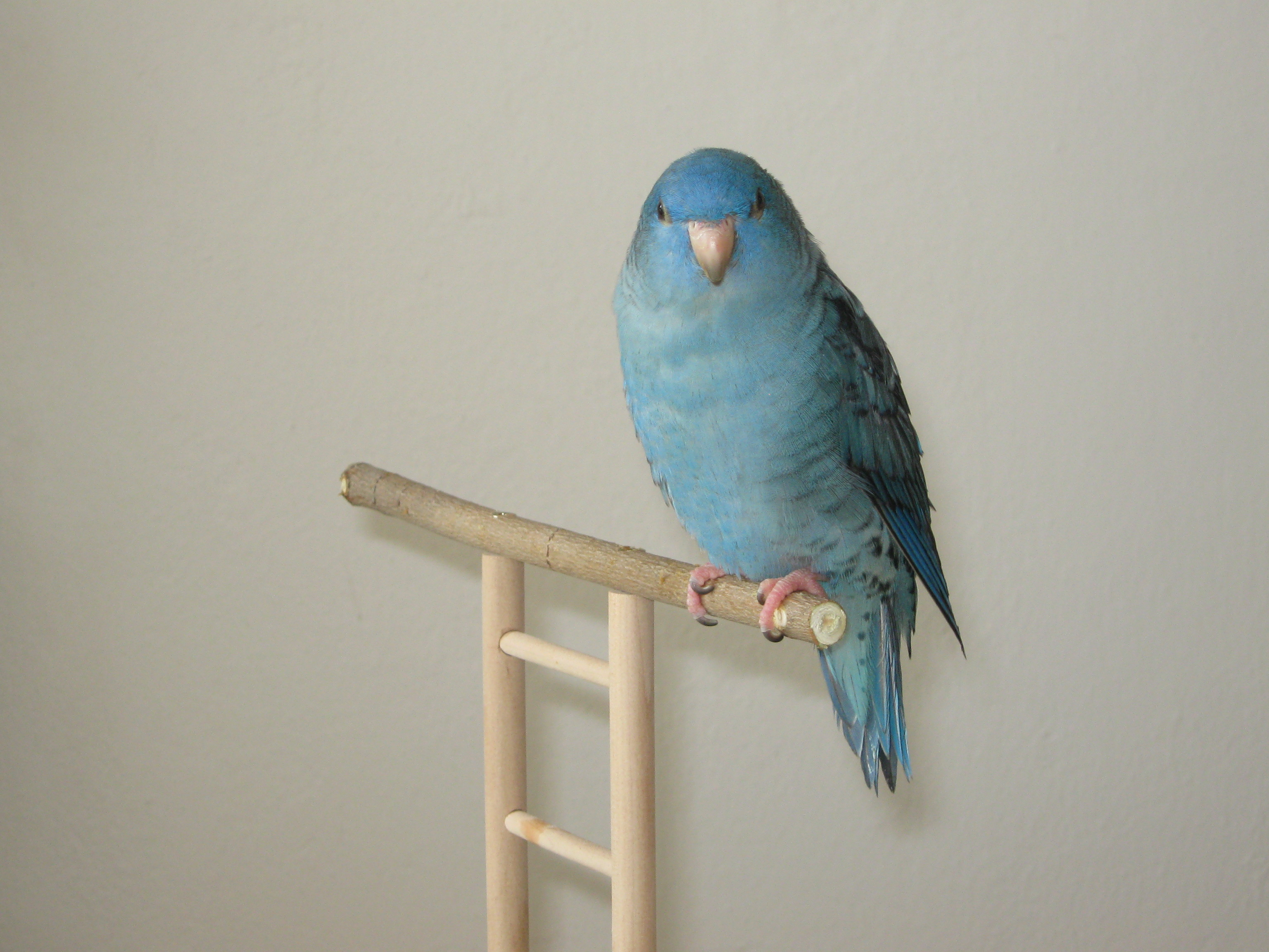 Lineolated parakeet (Catherine Parakeet), blue mutation, Bolborhynchus lineola